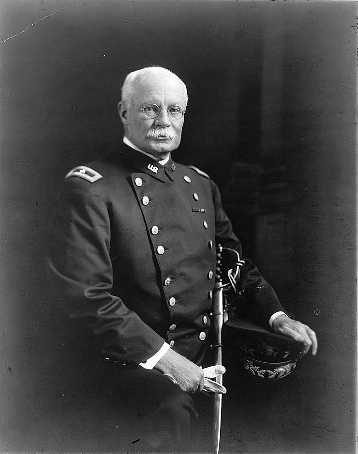 Hugh L. Scott, three-quarter length portrait, seated in chair, facing front, in uniform